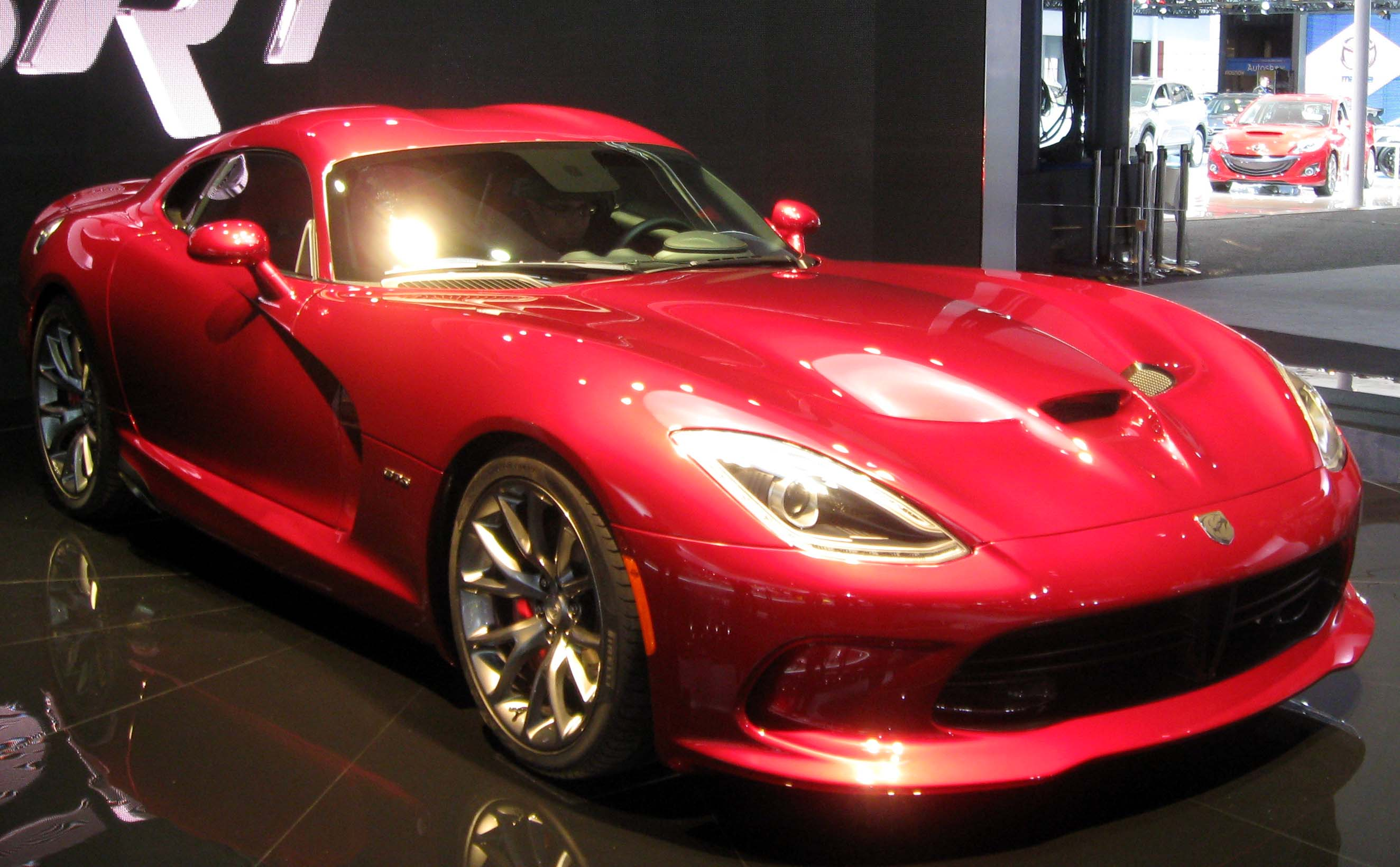 2013 SRT Viper photographed at the 2012 New York International Auto Show.